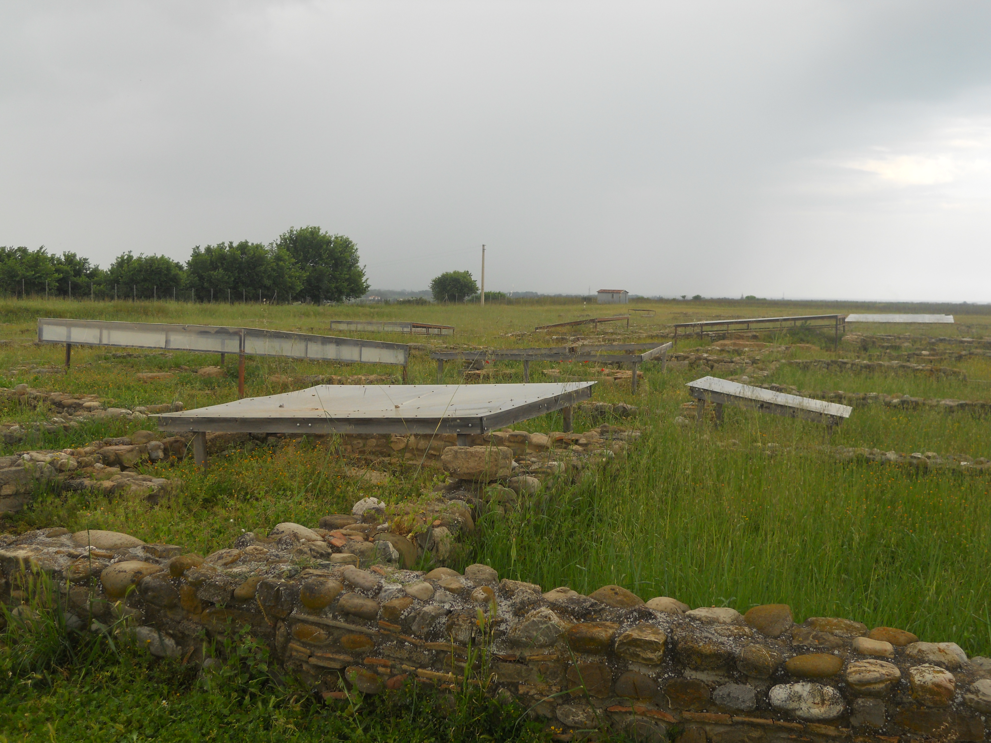 Herakleia and Siris archeological area, in the Museo nazionale della Siritide of Policoro (Italy)